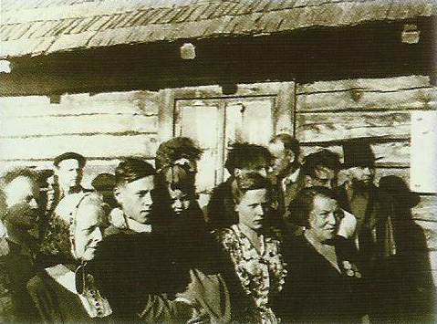 Unveiling of the memorial plaque on the house in which the famous Belarusian poet Yanka Kupala was born, Viazynka, Belarus, 30th June, 1946 Беларуская (тарашкевіца): Адкрыцьцё мэмарыяльнай дошкі на хаце ў Вязынцы, ў якой нарадзіўся народны паэт Беларусі Янка Купала, 30 чэрвеня 1946 году; у першым радзе на здымку (справа налева): жонка паэта Уладзіслава Францаўна Луцэвіч, пляменьніца паэта Ядвіга Юльянаўна Раманоўская, пляменьнік паэта Янка Юльянавіч Раманоўскі, у яго на руках - унучатая пляменьніца паэта Жанна, сястра паэта Леакадзія Дамінікаўна Луцэвіч